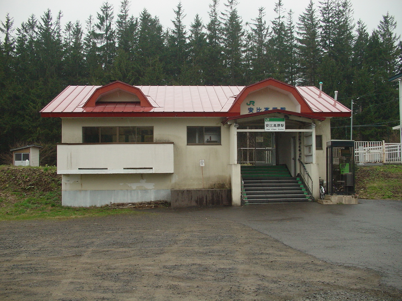 Appi-Kōgen Station in Iwate Prefecture